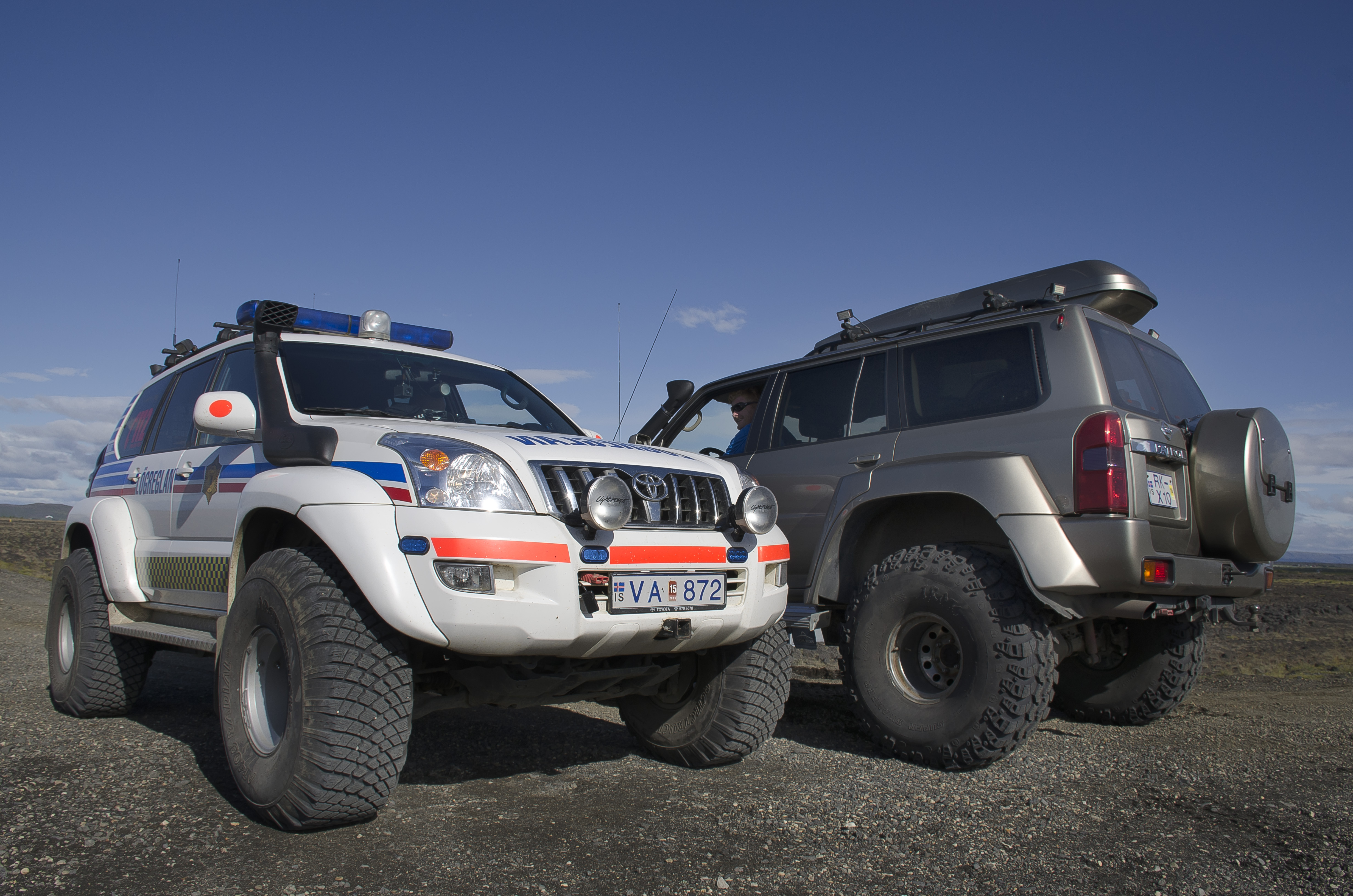 Toyota Land Cruiser J12 of the Icelandic police and Nissan Patrol, picture taken near Hvollsvöllur